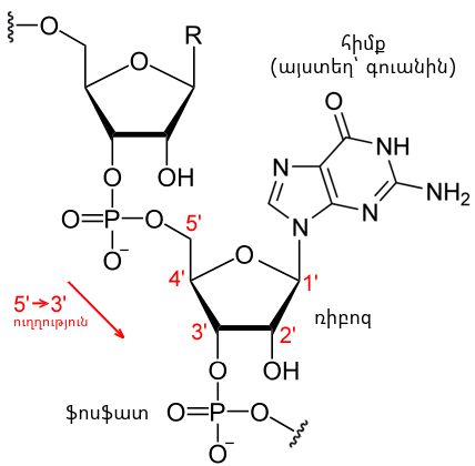 Diagram to illustrate 5' to 3' directionality in a nucleic acid (shown here in an RNA structure).